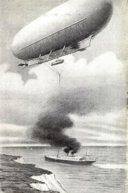 Drawing of the airship "Akron" in which Melvin Vaniman lost his life while attempting to cross the Atlantic in 1912